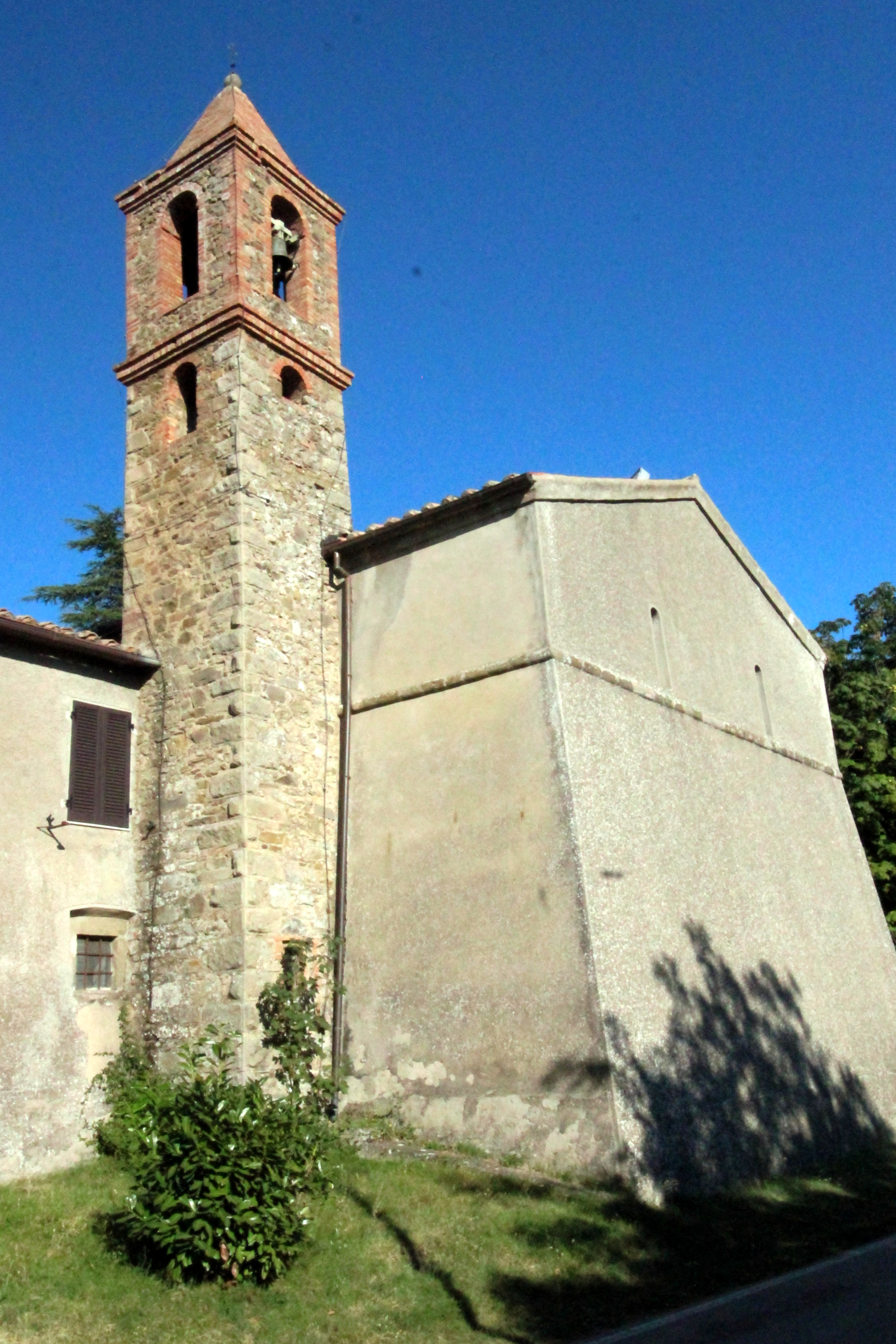 Campanile and Apse of the Church of San Lorenzo Martire, Pescina, hamlet of Seggiano, Province of Grosseto, Tuscany, Italy